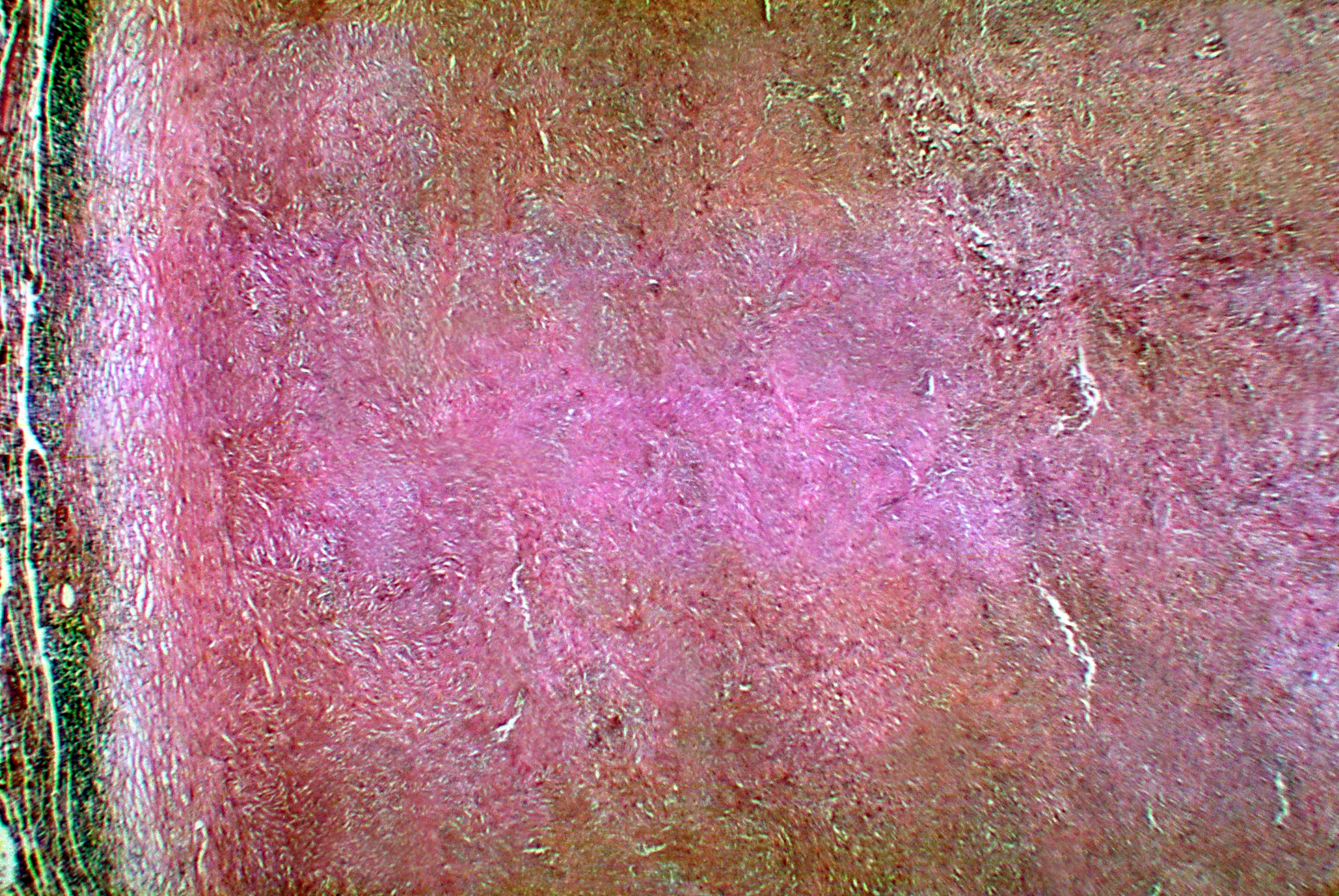 Histo-pathological changes in a case of coccidioidomycosis of the lung showing a large fibrocaseous nodule. Obtained from the CDC Public Health Image Library. Image credit: CDC/Dr. Martin D. Hicklin (PHIL #3930), 1964.